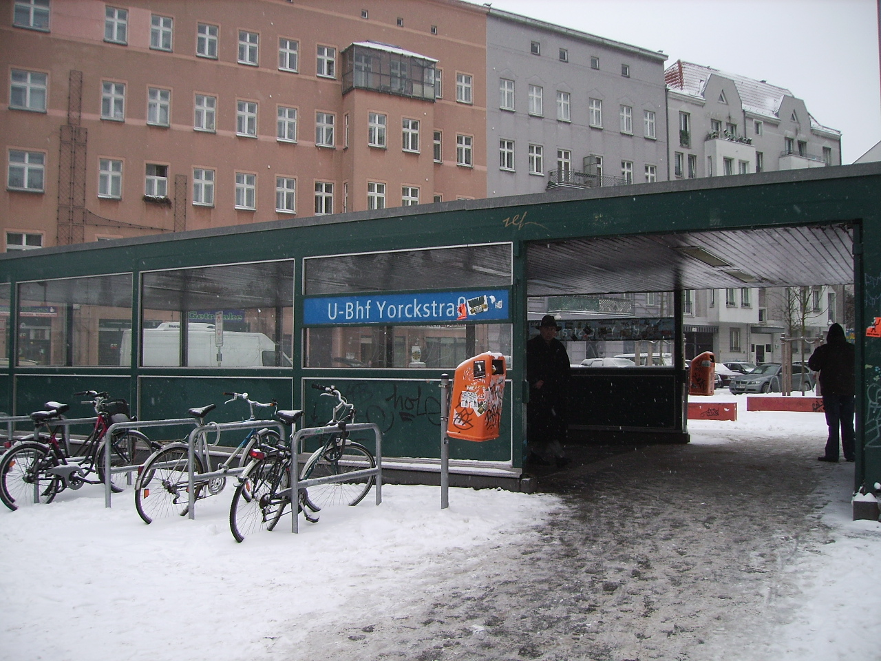 The Berlin U-Bahn station Yorckstraße, entrance; Berlin, Germany